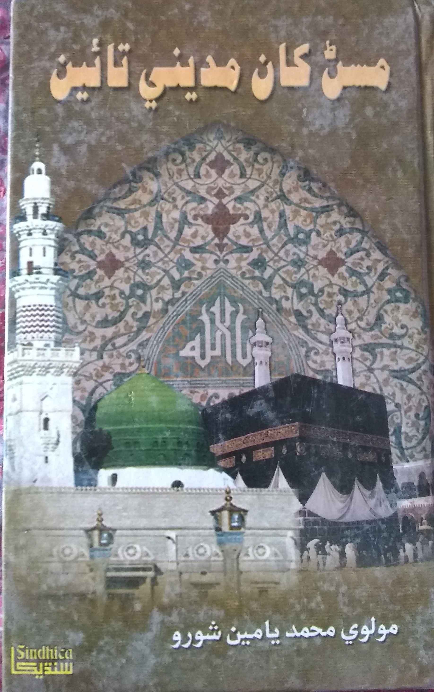 Molvi Yasmeen shoro